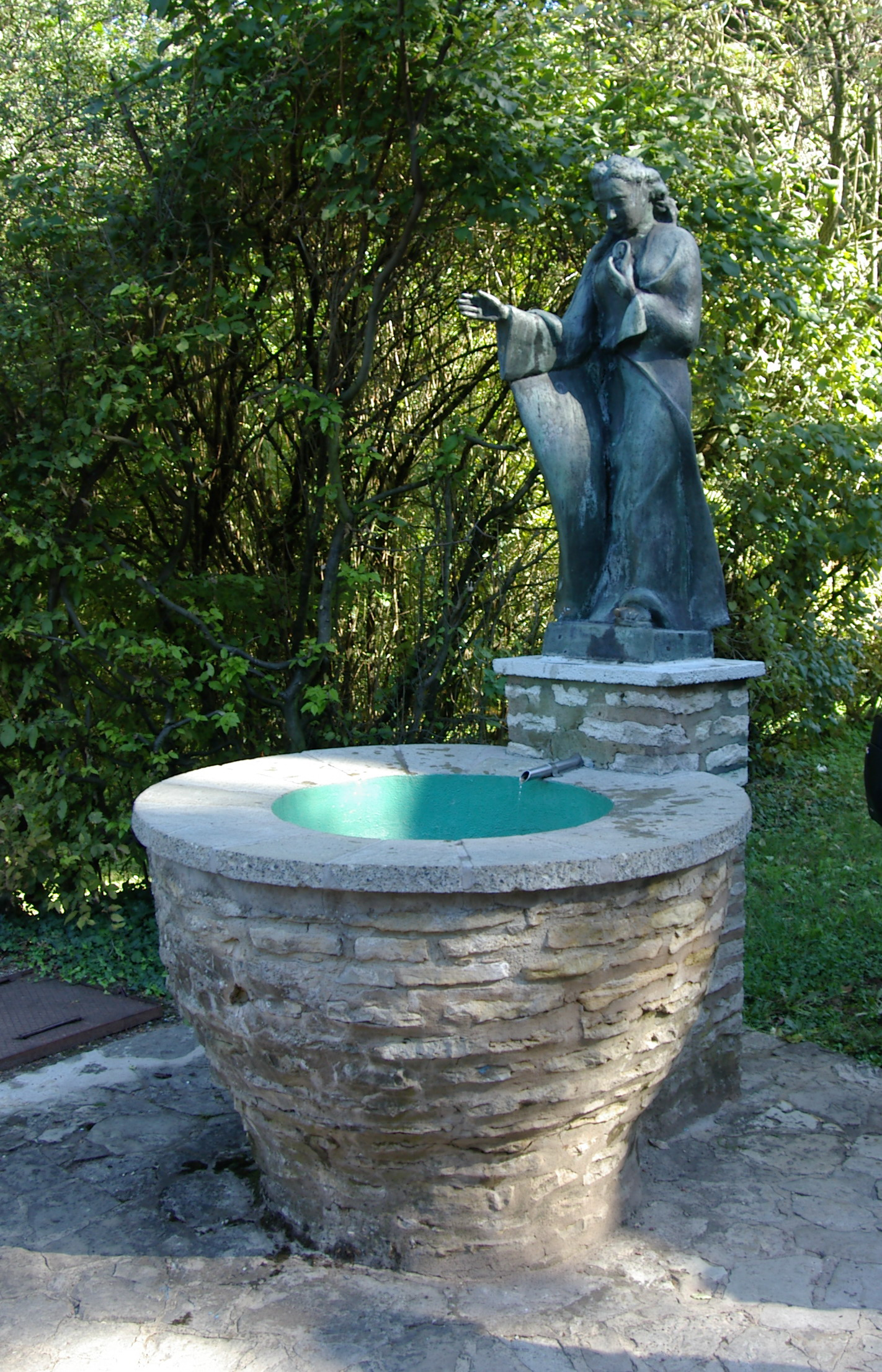 Saint Oranna's fountain in Berus